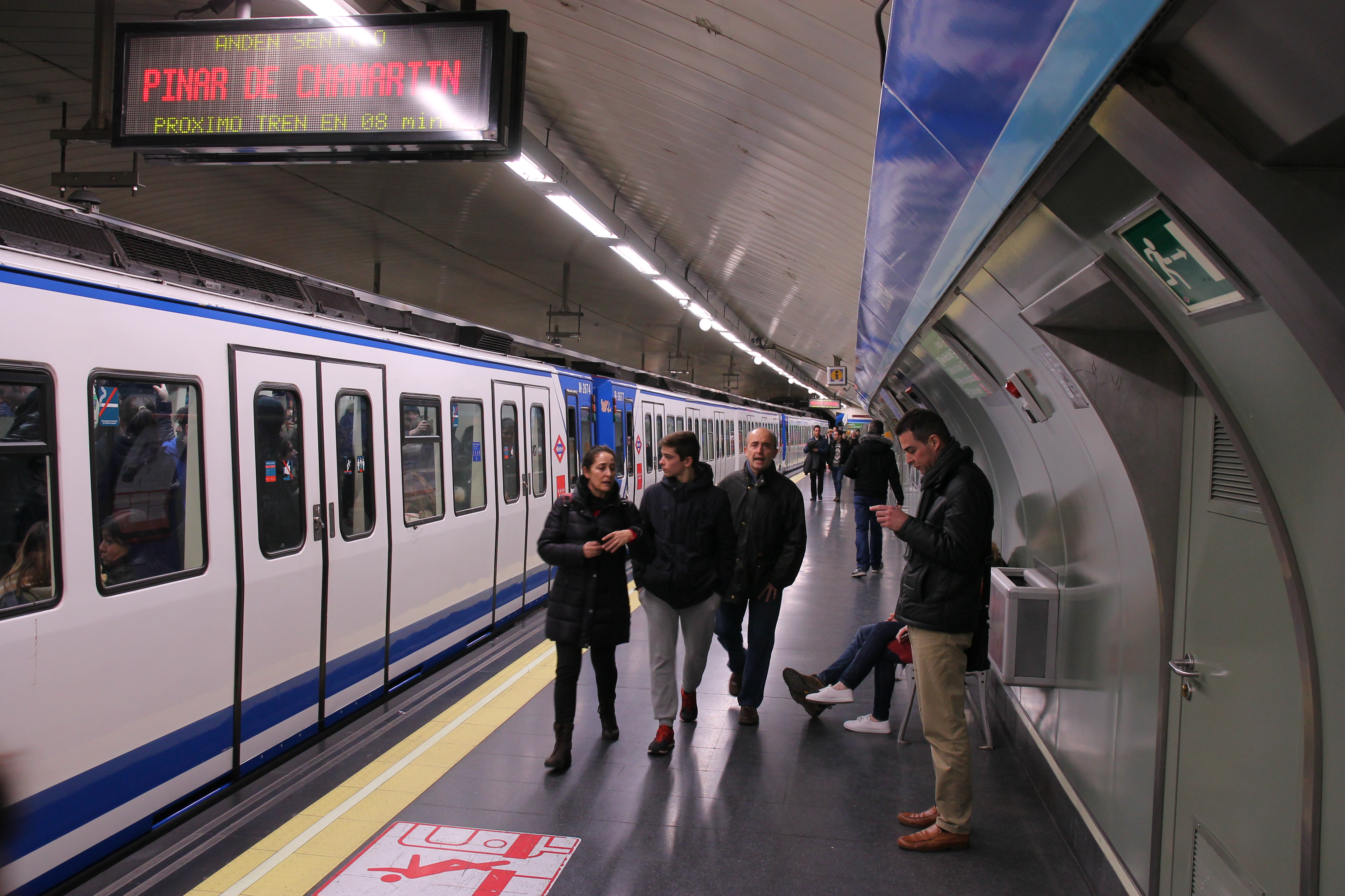 Estación de Atocha